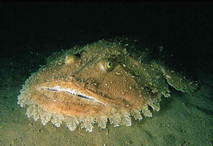 Picture of Lophius budegassa